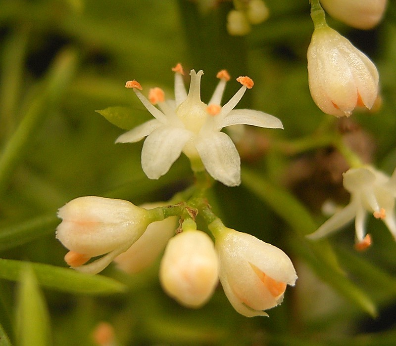 Flower of Asparagus densiflorus